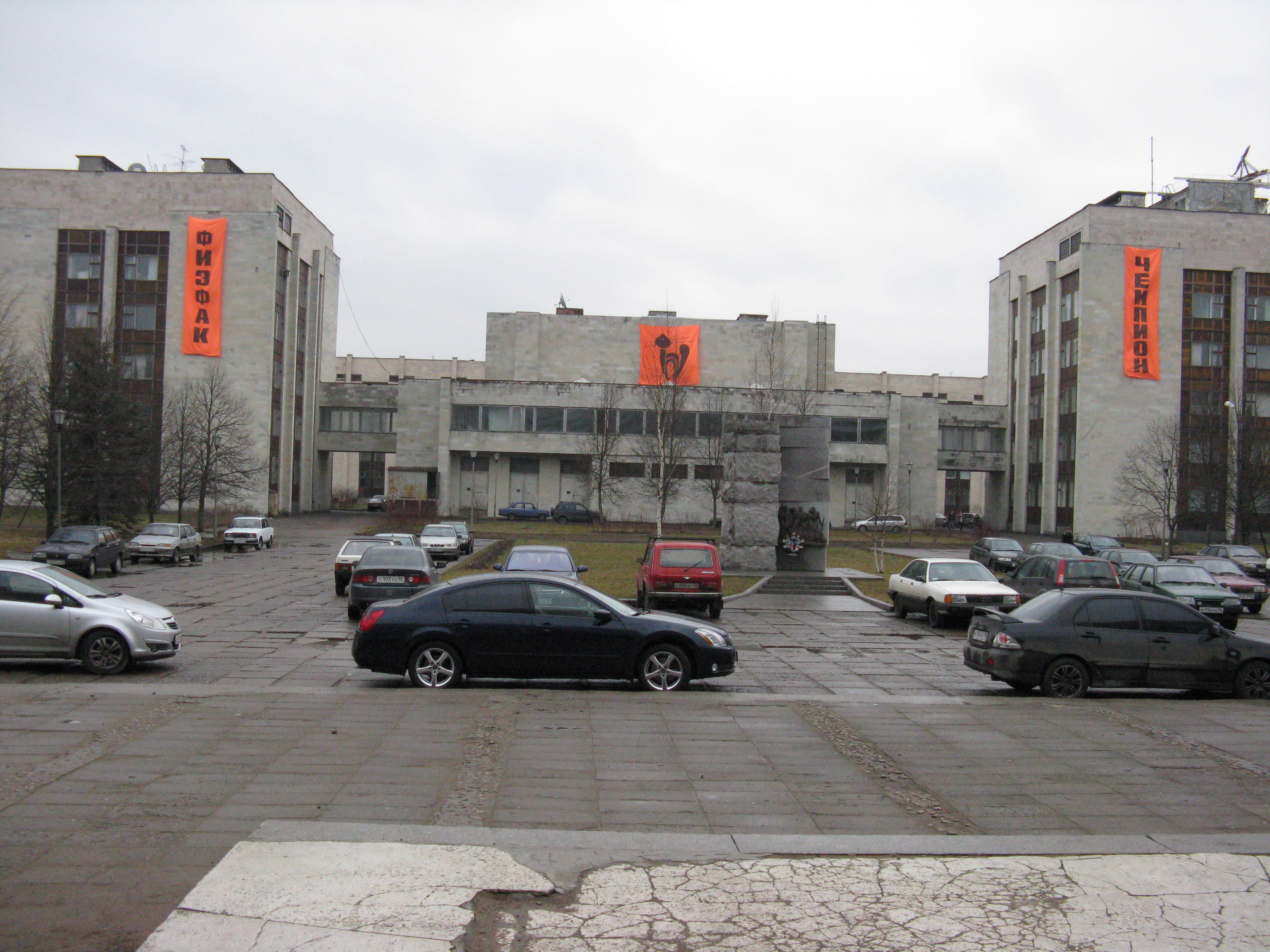 V. A. Fock Institute of Physics, Saint-Petersburg State University, St. Petersburg, Petrodvorets, Russia